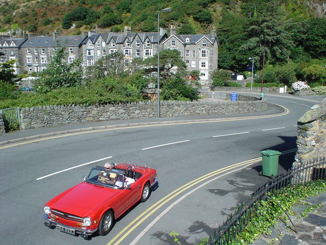 Open Road. A nice Triumph TR6 leaves Barmouth on the A496. Picture taken from Borthwen Terrace, Aberamffra Rd. Porkington Terrace seen in the Background. 7th August 2006.